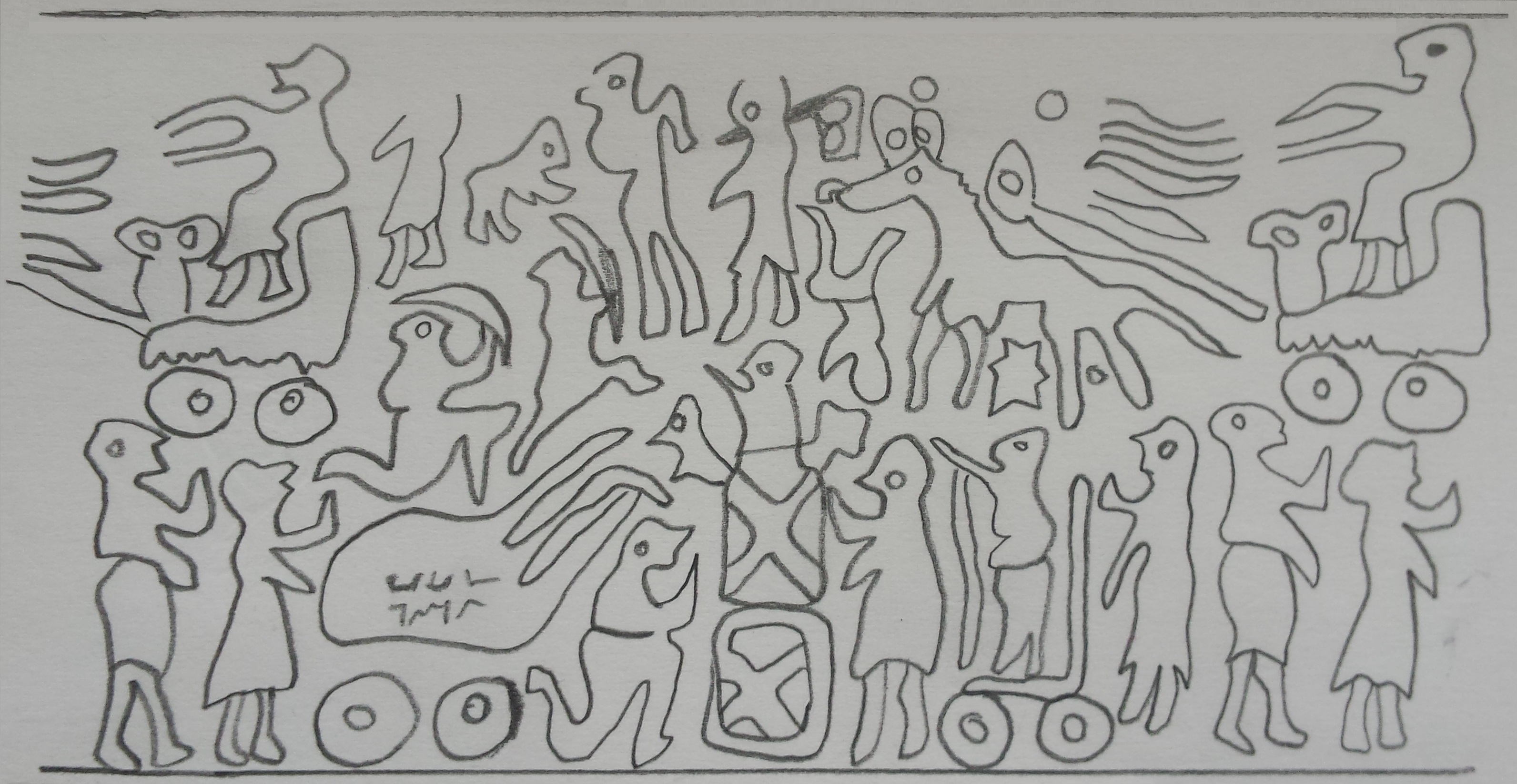 a seal impression from Nabada.[1]